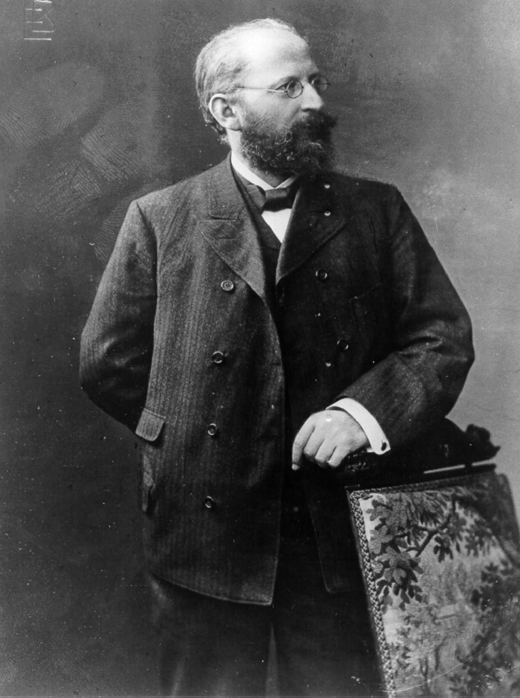 Photograph of Mr. Eduard Bernstein, German Socialist